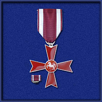 Lower Saxony Order of Merit, Merit Cross on Ribbon (3rd Class)